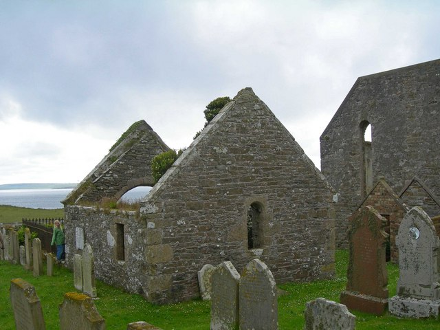 Shapinsay Graveyard, Orkney IslandsThe roofless building in the centre of the image is the crypt of the Balfour family, foremost pioneering family of the island. This is the eastern portion of the cemetery.